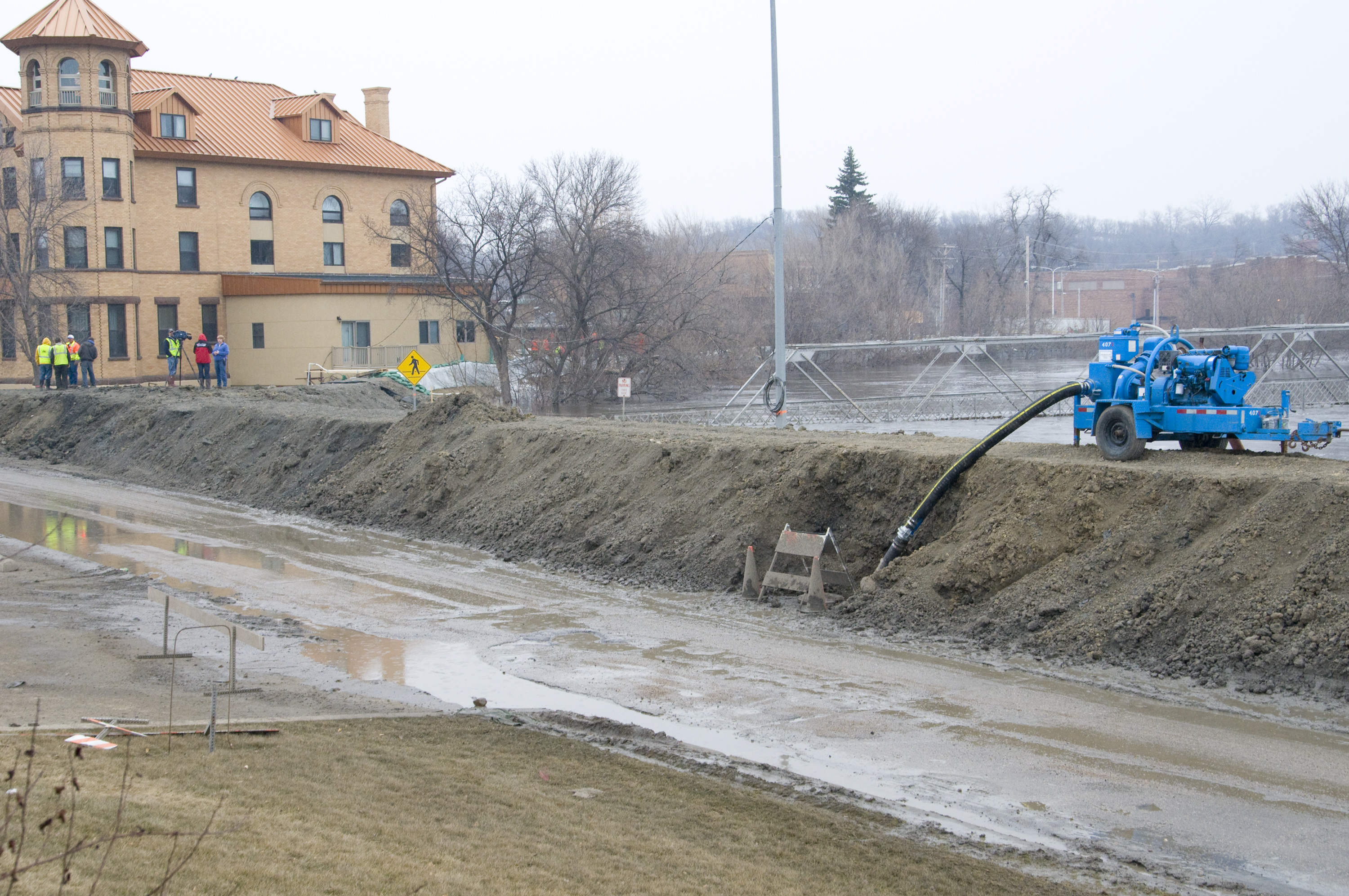 Valley City, ND, April 12, 2009 -- The swollen Sheyenne River doing battle with National Guard and city officials to seep through a massive dike built to protect the town as a local film crew records the action from atop the structure. Record river crests across the Red River valley are pitting man against nature throughout the region. Mike Moore/FEMA